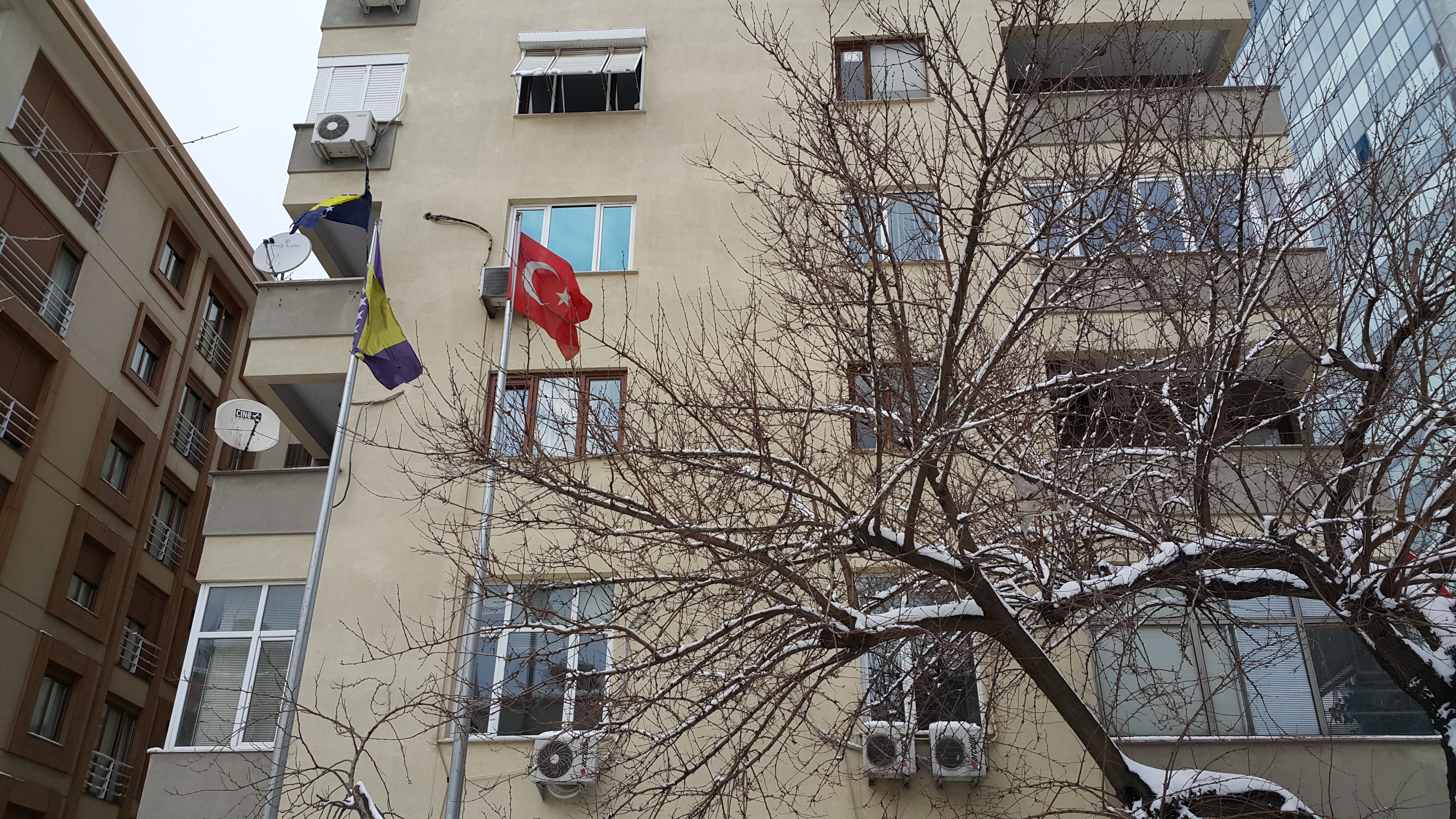 Consulate-General of Bosnia and Herzegovina in Istanbul, Turkey.